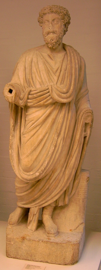 Information from the sign in the British Museum, London: Statue of the emperor Marcus Aurelius (AD 161-180) wearing the toga. Proconnesian marble. Made about AD 176-180. From Alexandria, Egypt